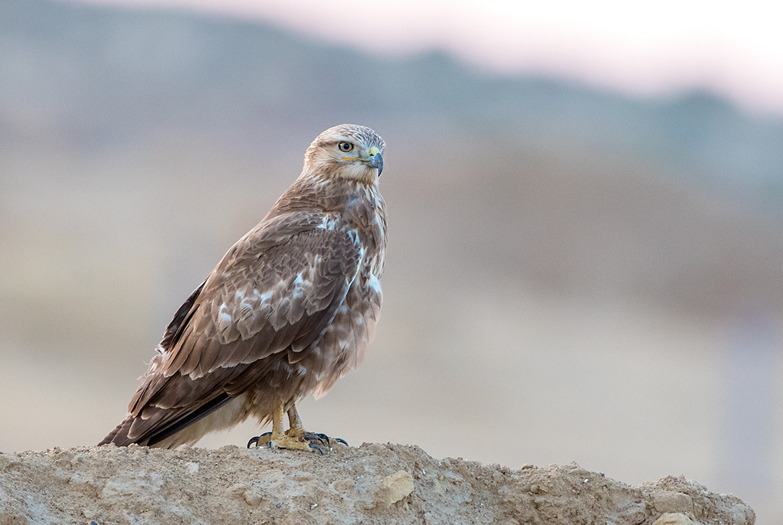 Near Jaisalmer, Rajasthan Happy New Year to all my friends on Flickr!